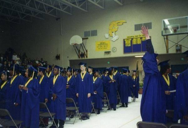 Jefferson High School graduation 1994